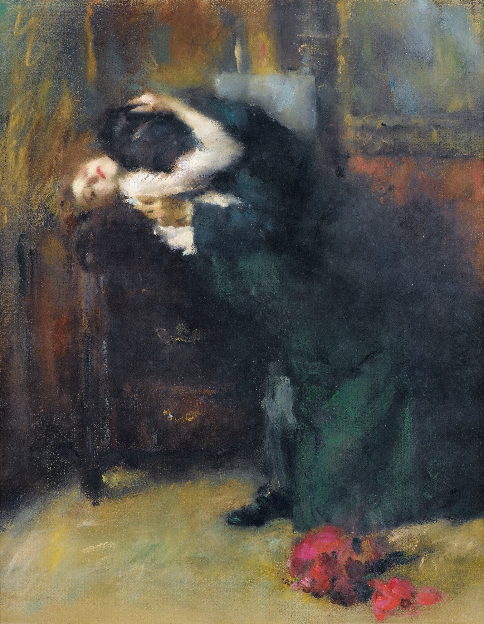 The kiss